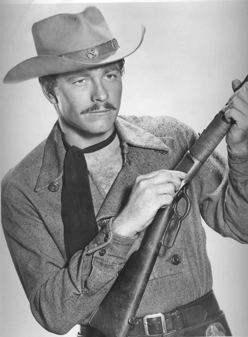 Photo of Wayde Preston as Christopher Colt from the television series Colt .45. The item has no copyright markings on it as can be seen in the links above.